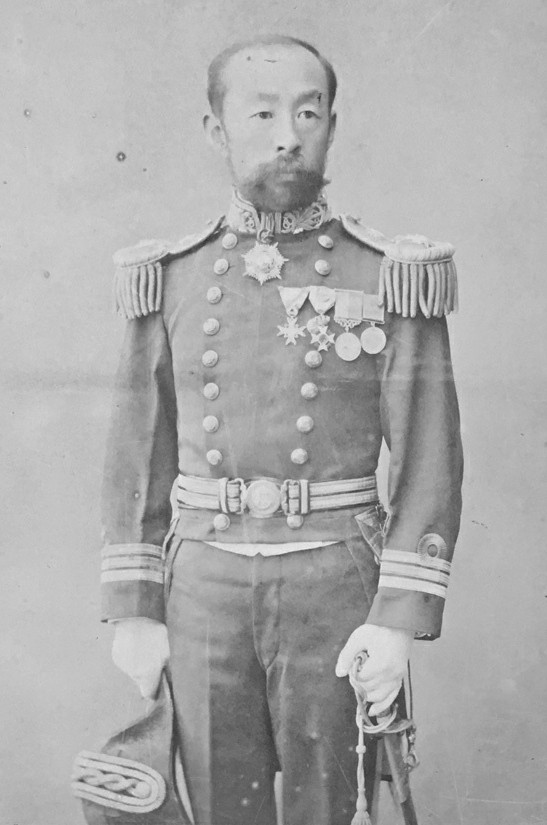 Masamichi Tougou was a Vice Admiral of the Imperial Japanese Navy